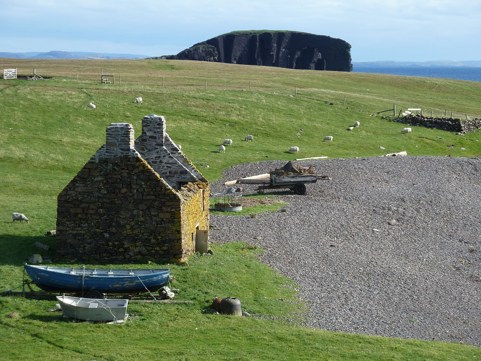 Stenness is a headland south of Esha Ness, with a community of the same name consisting of a few houses. In years gone by there were more houses and more people, as well as a busy "Haaf" fishing station, the remnants of which can be found, such as the roofless building seen on the shore here. The looming eminence in the background is HU2176 : Dore Holm - The Drinking Horse Haaf fishing involved boats called sixareens, each with six men and six oars as well as a square shaped sail. They would row and sail up to 50 miles out to sea.